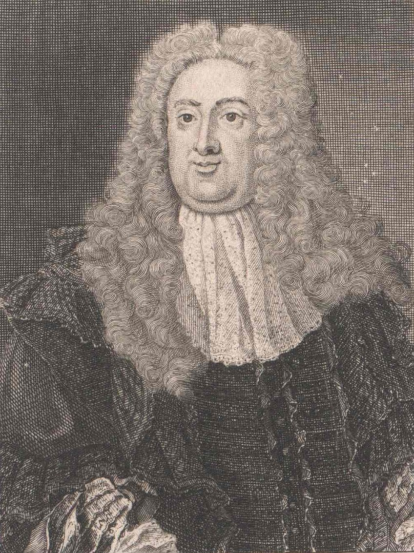 Portrait of František Ferdinand Kinský (1678-1741)